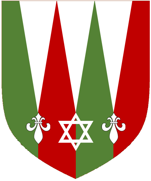 Shield of arms of The Lord Janner of Braunstone